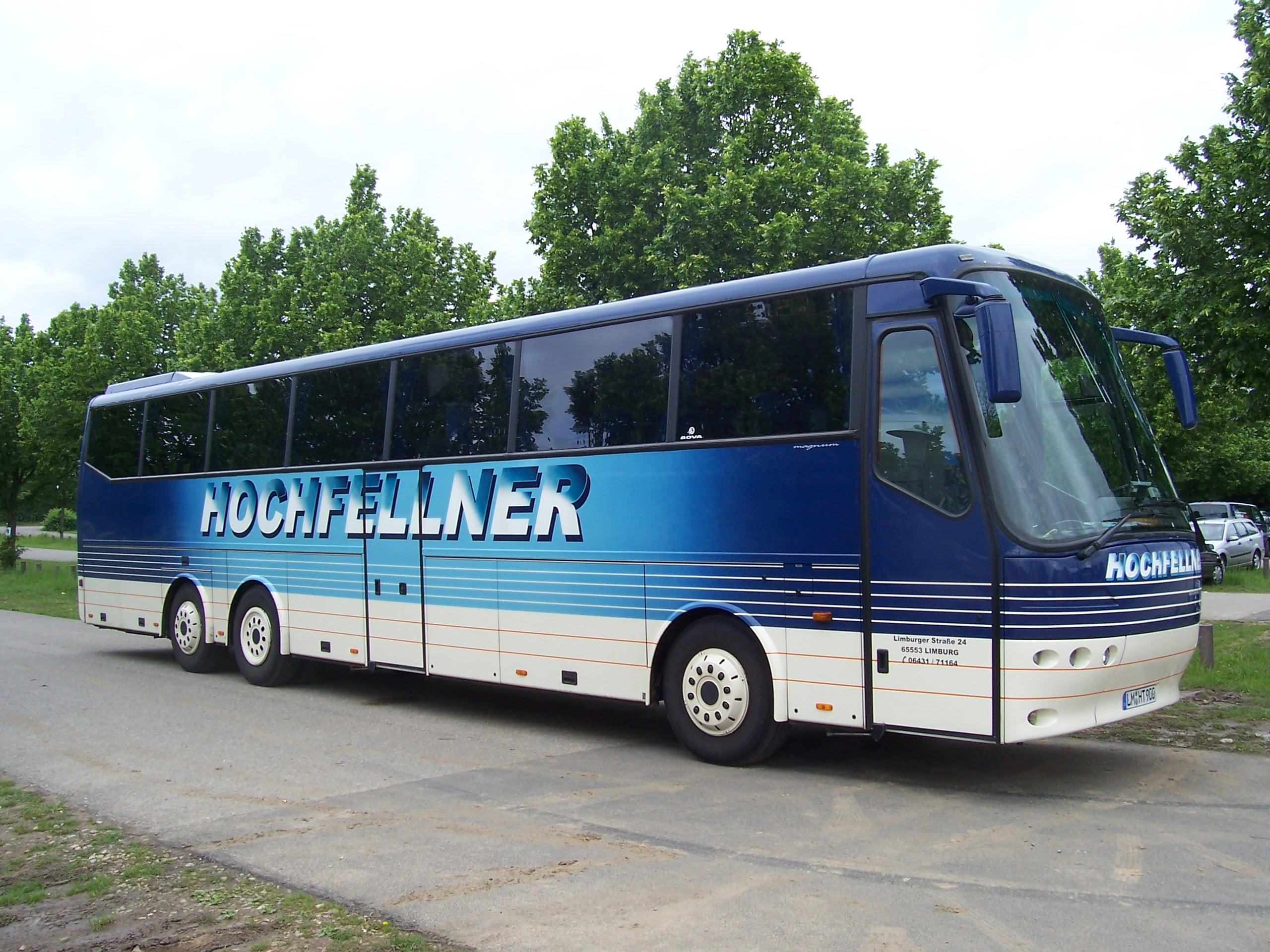 Bova Futura FHD 14 Magnum coach (LM-HT 900) in Mannheim, Germany. Hochfellner from Limburg operator.